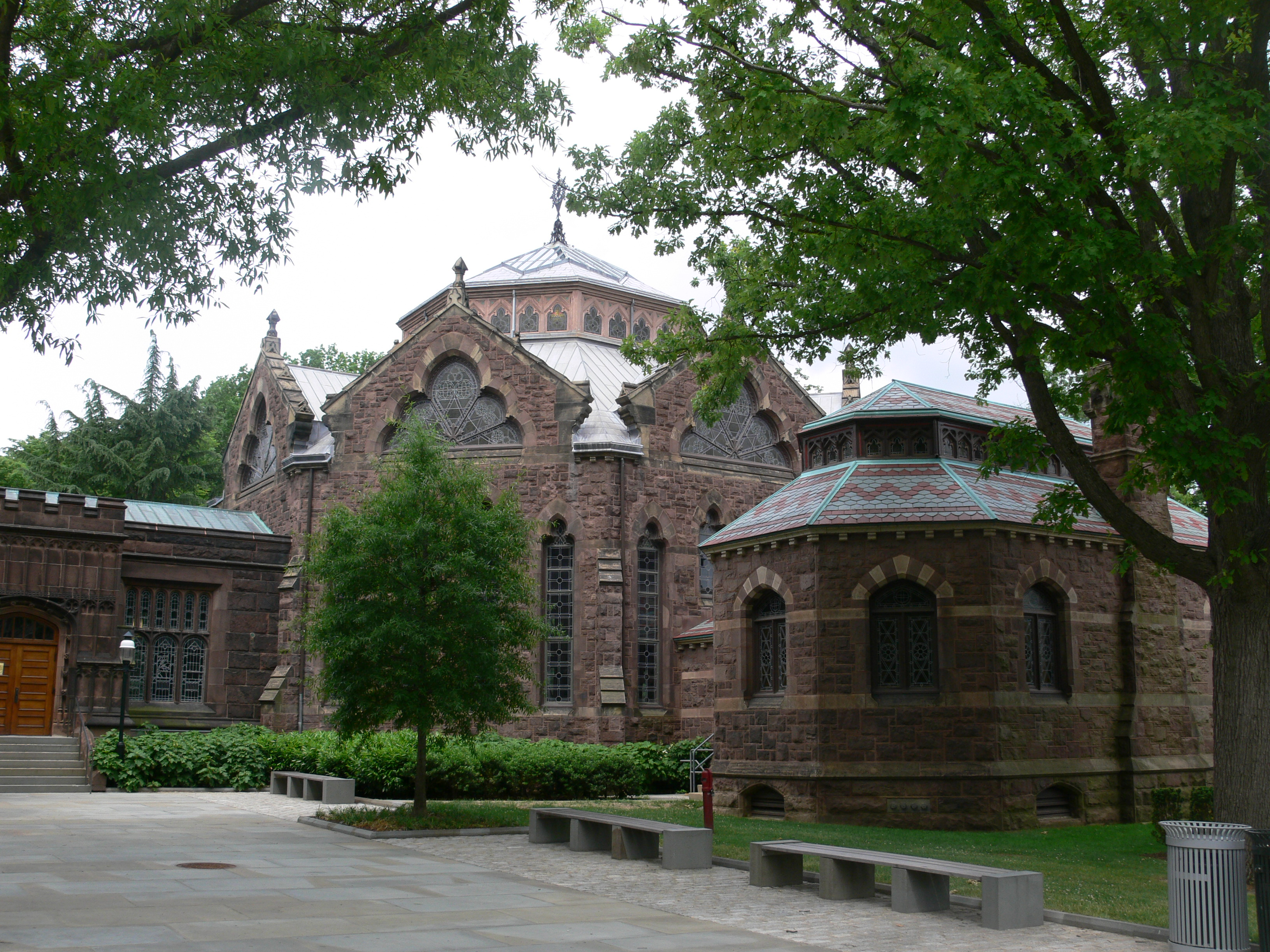 Chancellor Green Hall Princeton University, Princeton, New Jersey